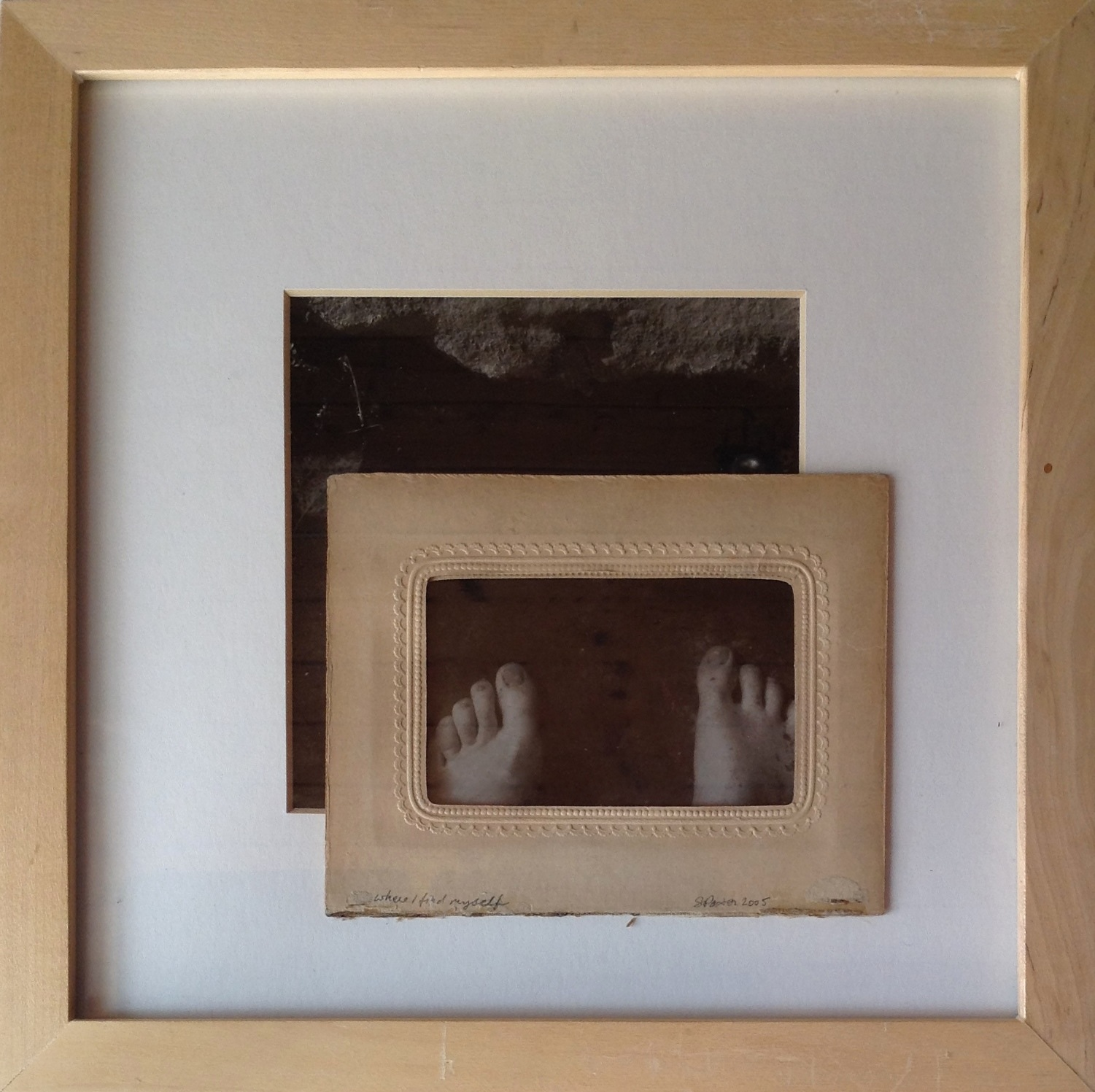 Boxed assemblage. 25 x 25 x 5 cm.